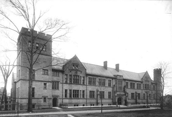 Designed by Charles C. Haight, the laboratory was completed in 1912. It is located at 217 Prospect Street. Yale University, New Haven, CT.